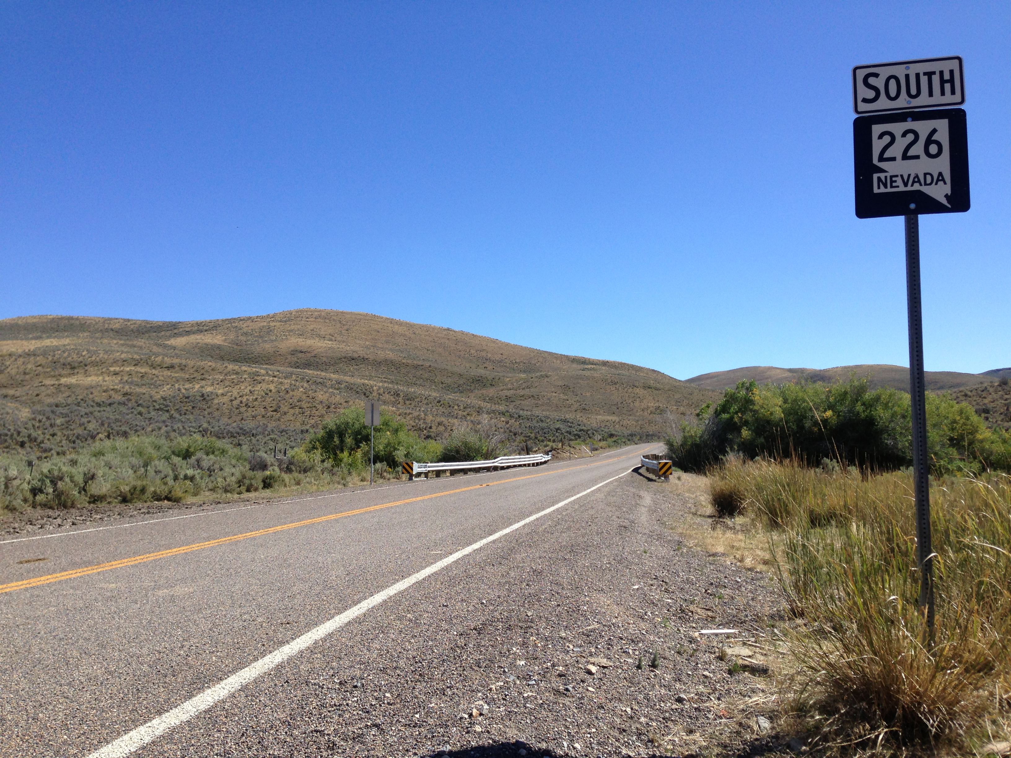 First reassurance sign along southbound Nevada State Route 226 (Deep Creek Highway) in Elko County, Nevada